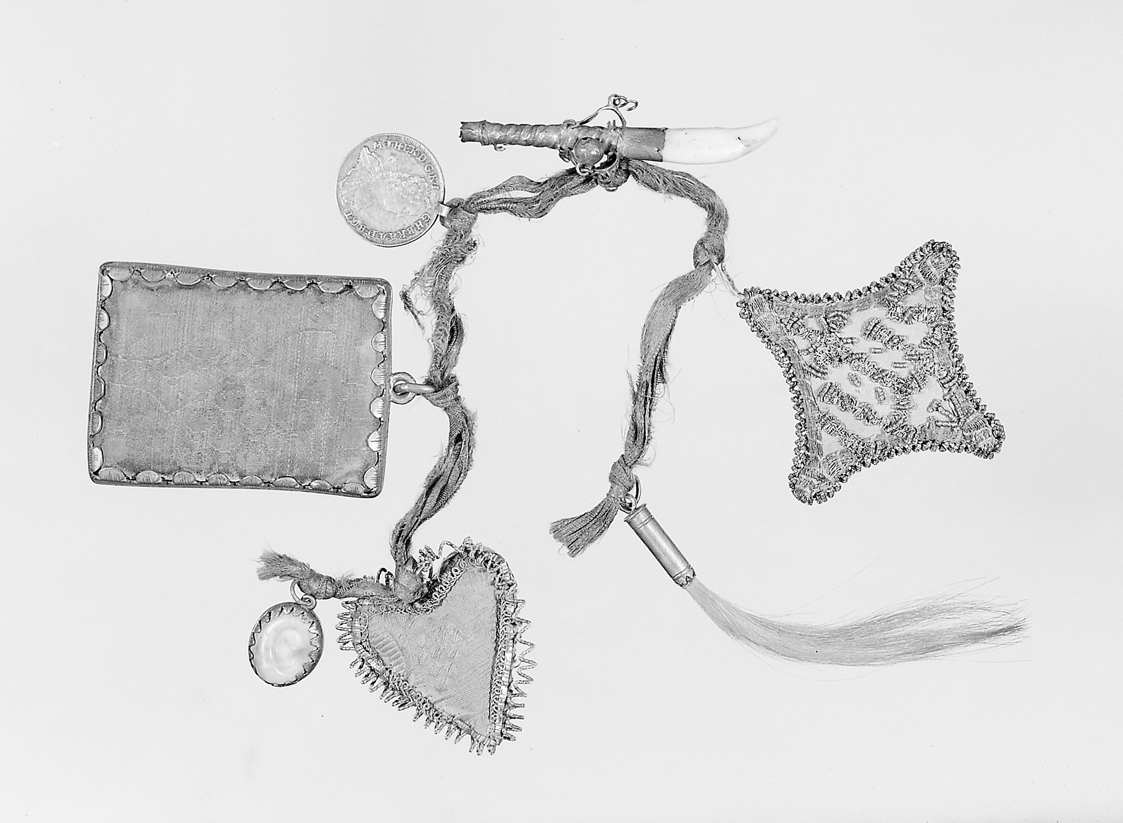 Fraiskette with 3 cases, probably containing charms, a tooth mounted in silver with bell attahced, an operculum, and a coin showing on one side a Madonna and Child. Wellcome Images Keywords: amulet; charm